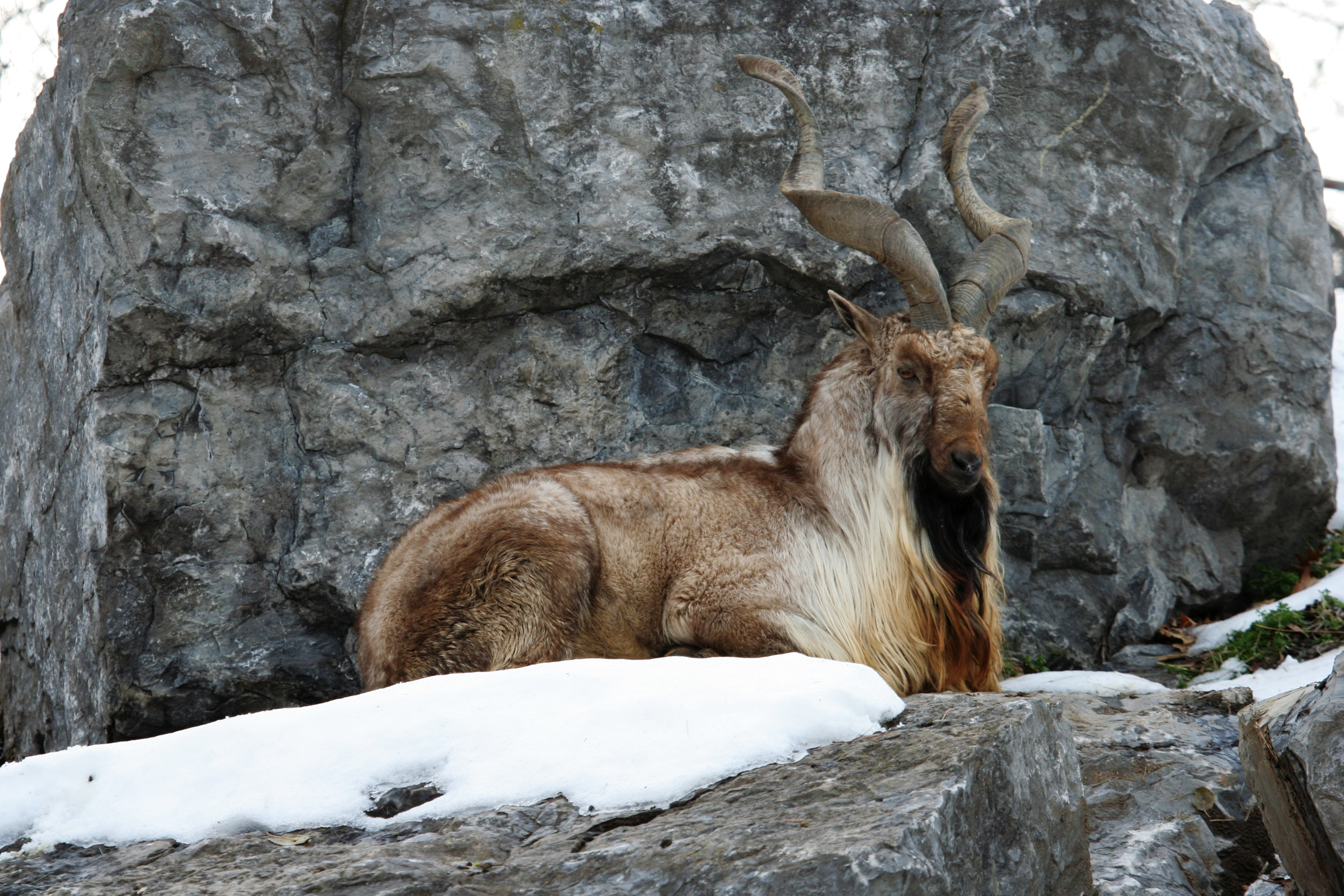 Markhor (Capra falconeri) at the Rosamond Gifford Zoo, Syracuse, New York.